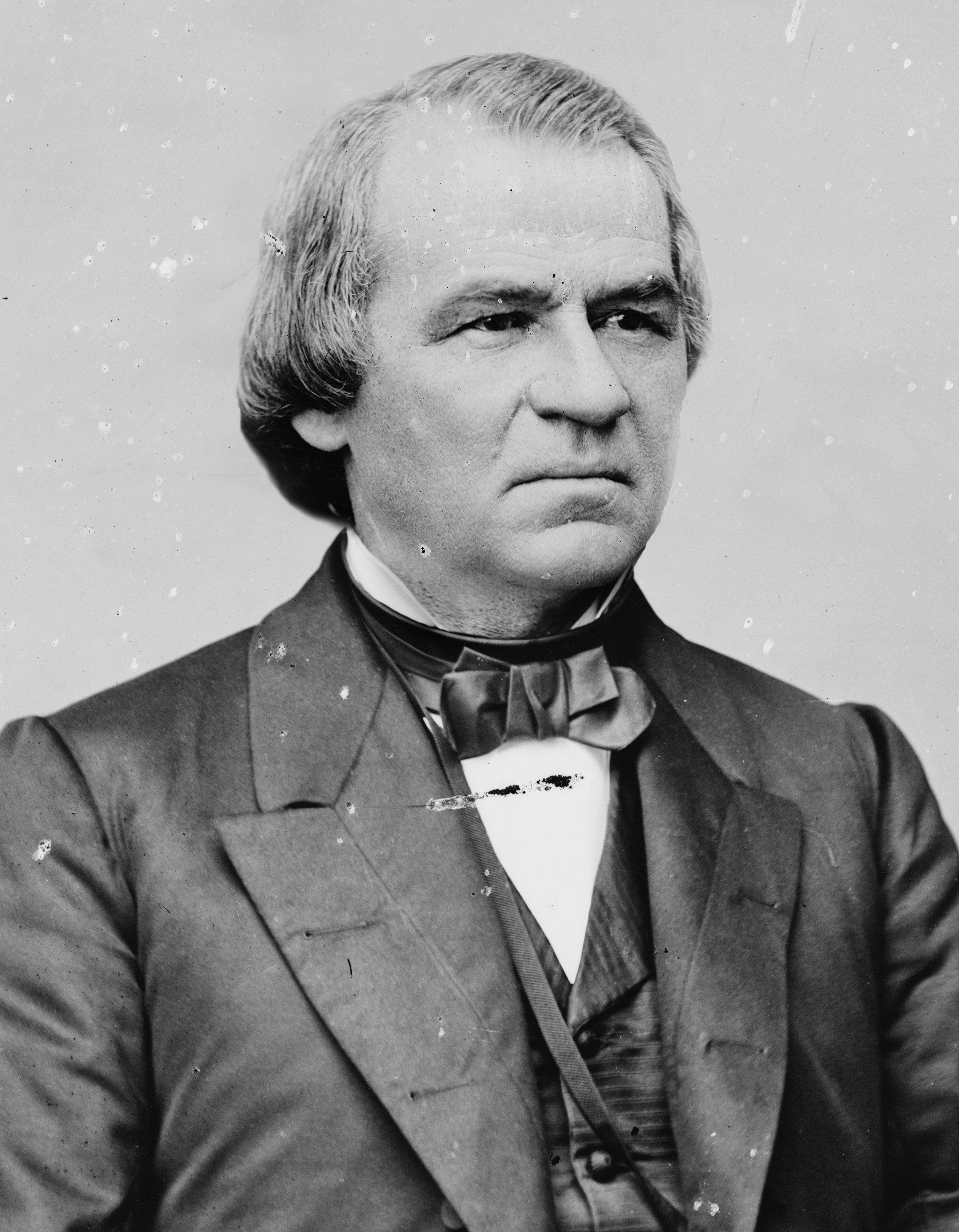 President Andrew Johnson